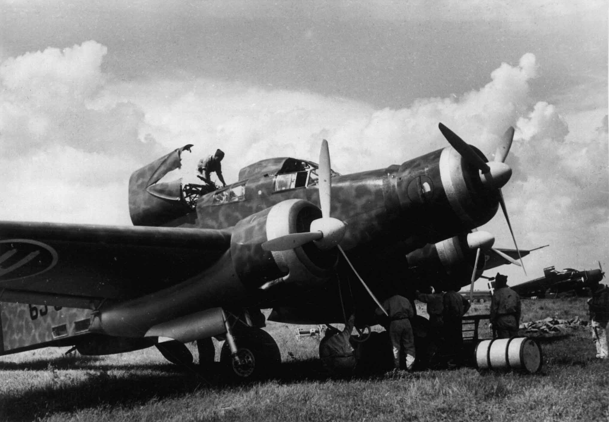 Italian bomber being refueled in Sicily for next attack on Malta.